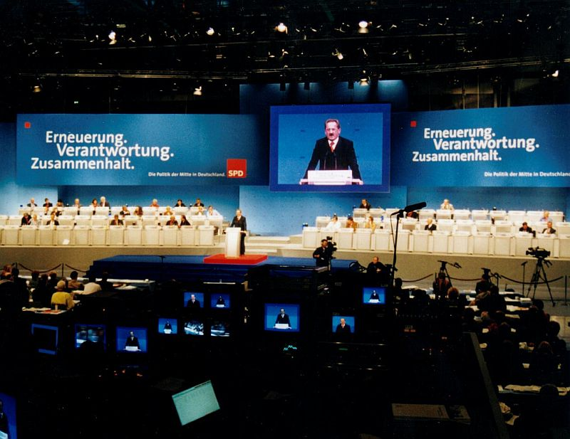 SPD's Political convention in Nuremberg, Bavaria 2001. Christian Ude, Mayor of Munich speaking.